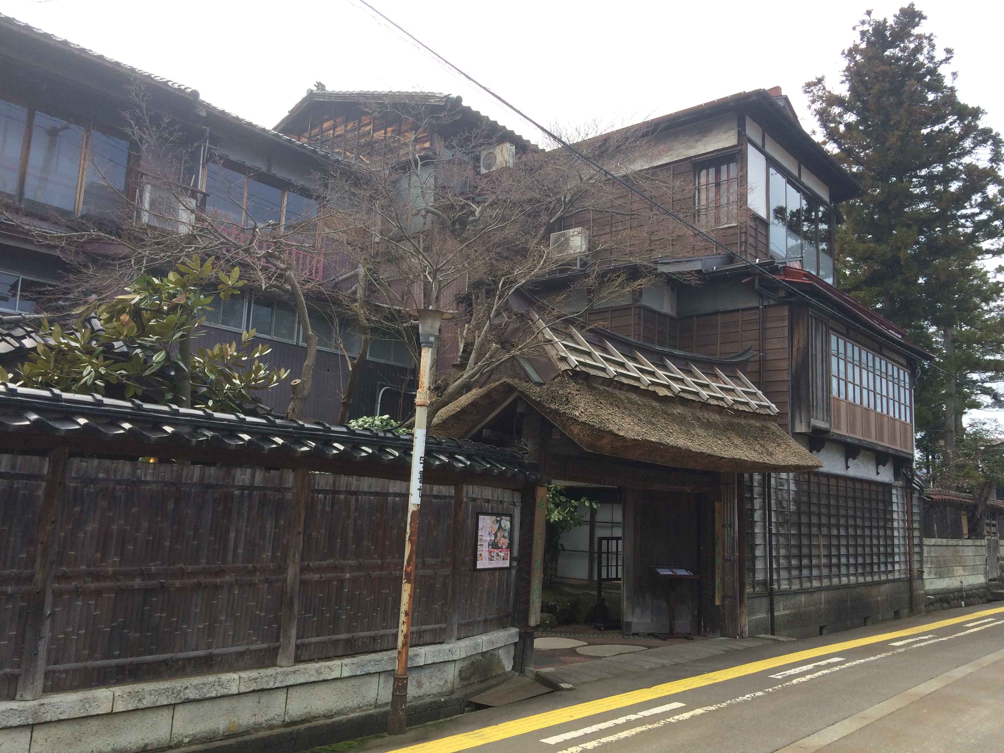 The main building dates back to the late 19th century.